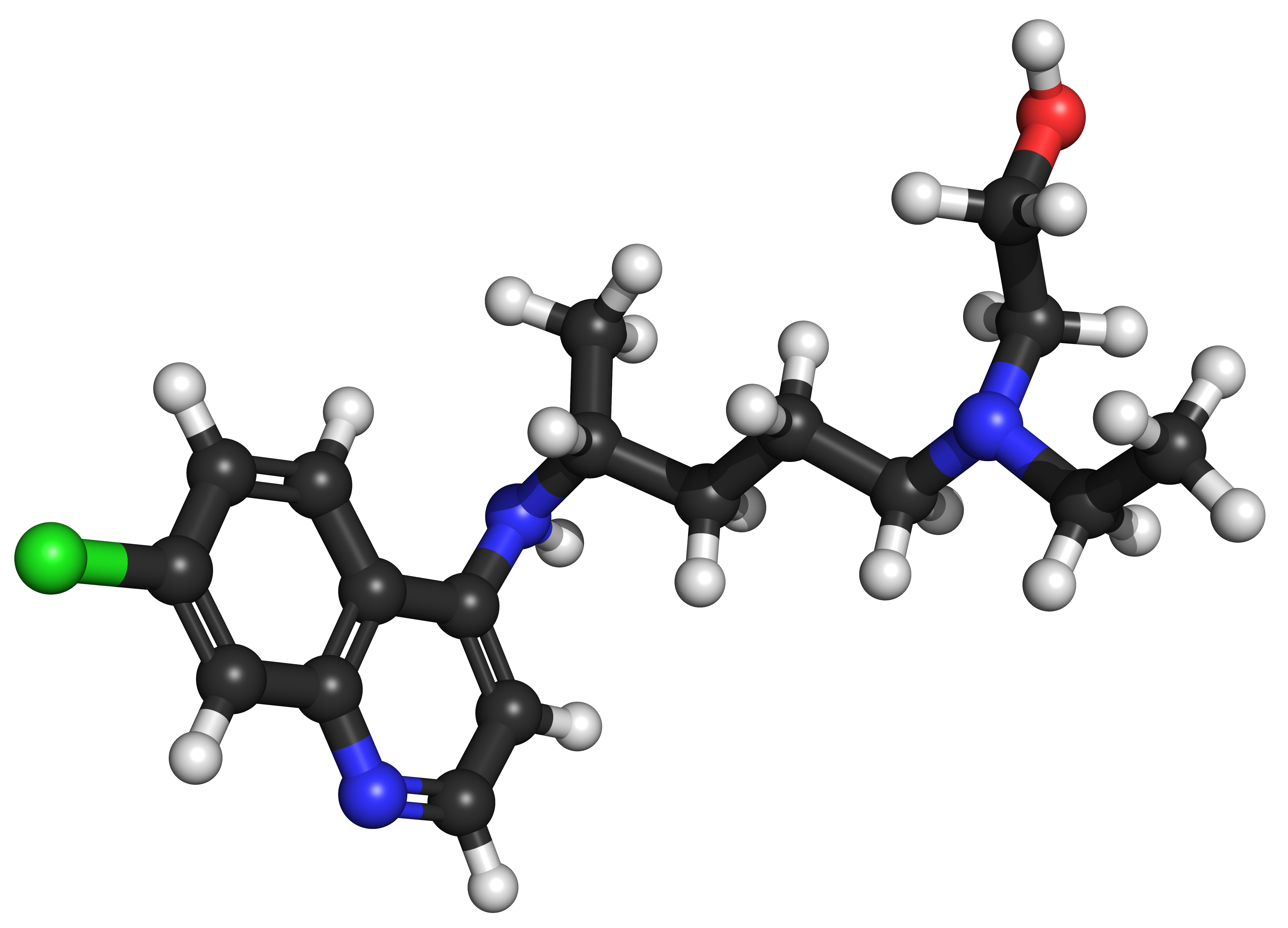 A simple ball and stick representation of an uncharged molecule of hydroxychloroquine.